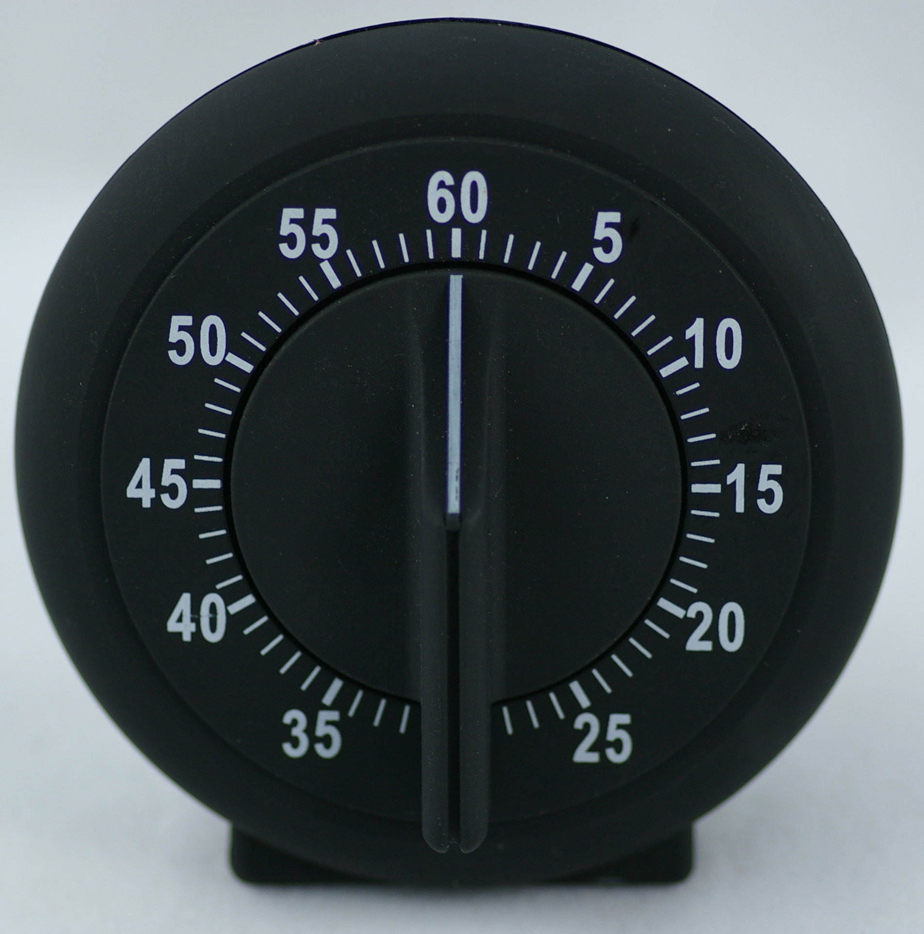 A mechanical kitchen timer